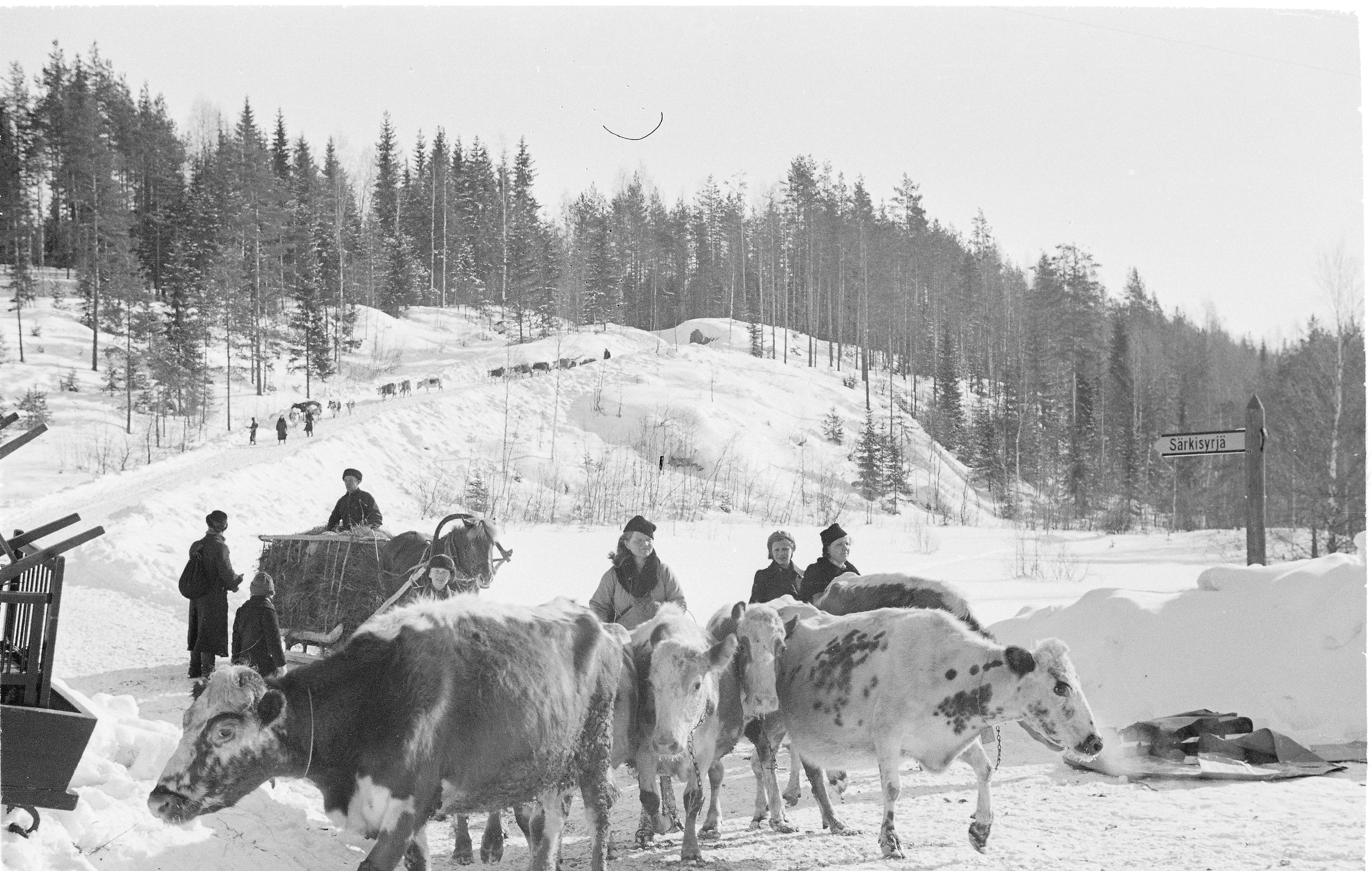 Civilians evacuating at Särkisyrjä after the Winter War